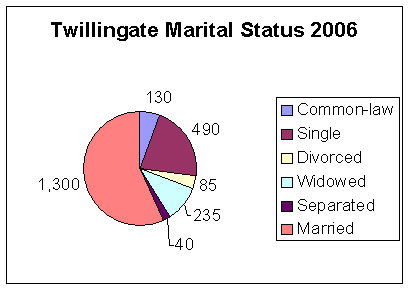 Marital Status Twillingate, Newfoundland and Labrador 2006